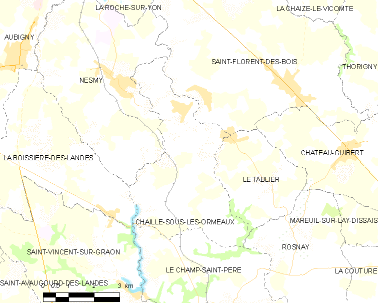 Map of French municipality Chaillé-sous-les-Ormeaux